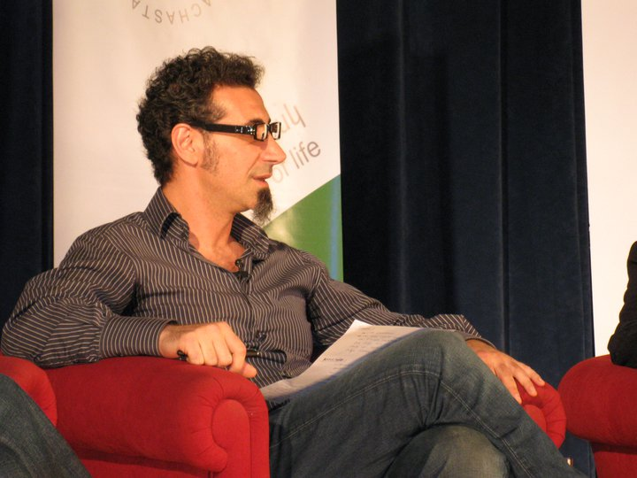 Serj Tankian met with representatives of Armenian Media and MGOs on 15.08.2011 in Yerevan.